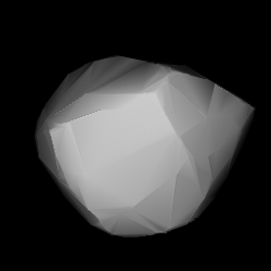 3D convex shape model of 681 Gorgo, computed using light curve inversion techniques. J. Hanuš, J. Ďurech, M. Brož, B. D. Warner (June 2011). "A study of asteroid pole-latitude distribution based on an extended set of shape models derived by the lightcurve inversion method". Astronomy and Astrophysics 530: A134. ISSN 0004-6361. arXiv